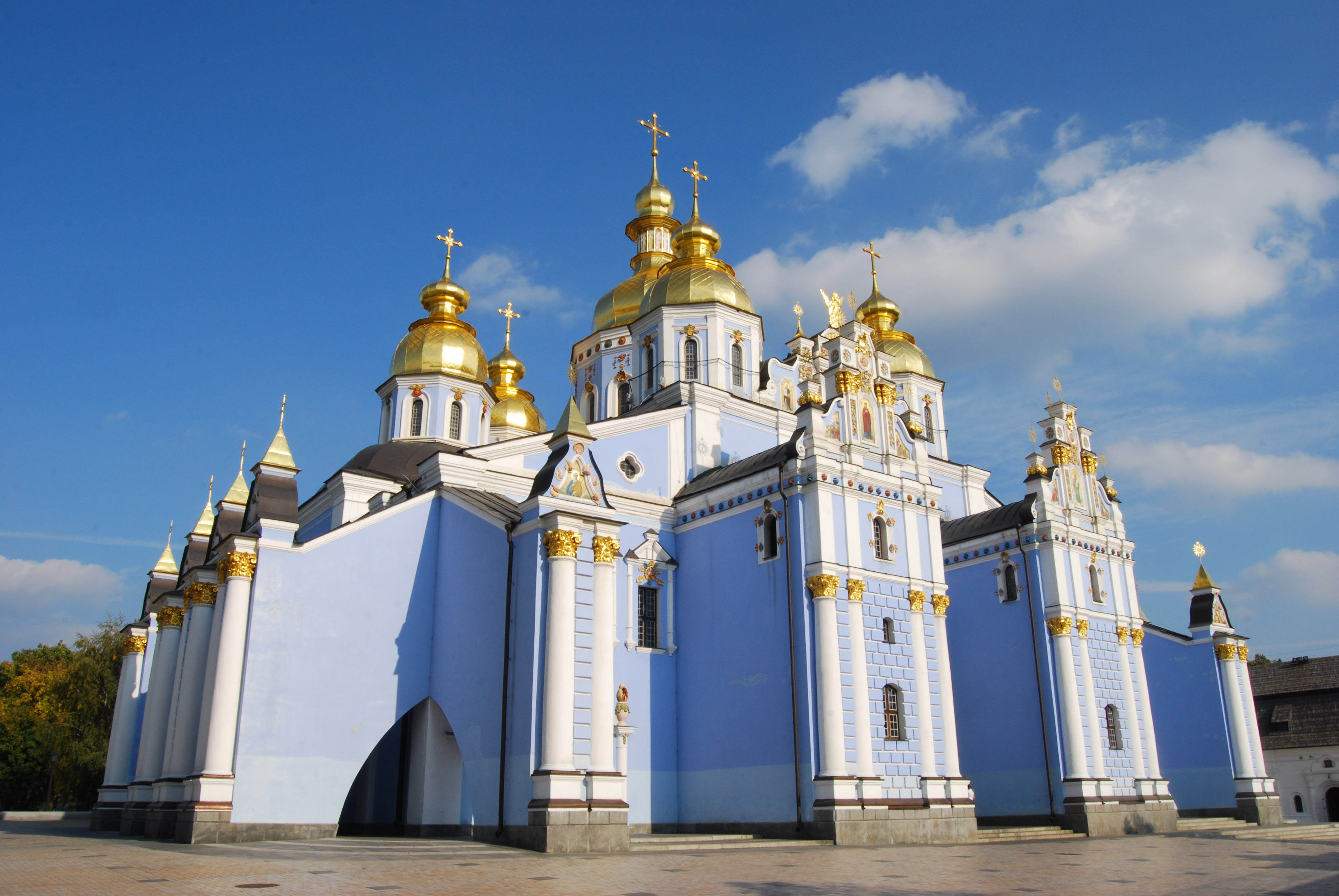 St. Michael's Golden-Domed Monastery in Kiev.